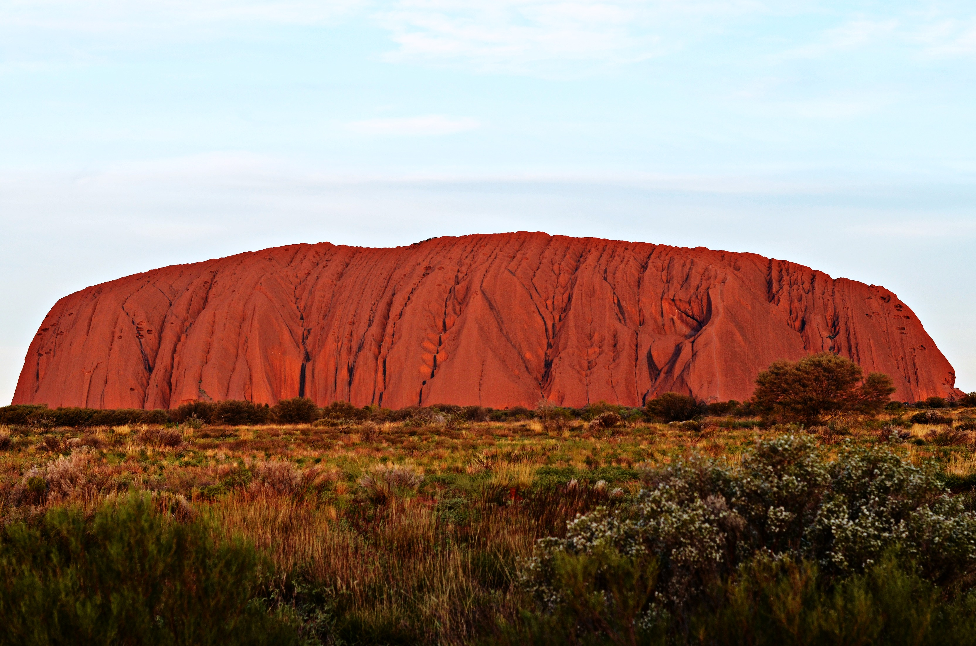 Uluru is estimated to be around 600 million years old. The greater Uluru area is considered a sacred site by native Aborigines, particularly the local Anangu tribe who are considered its traditional landowners.